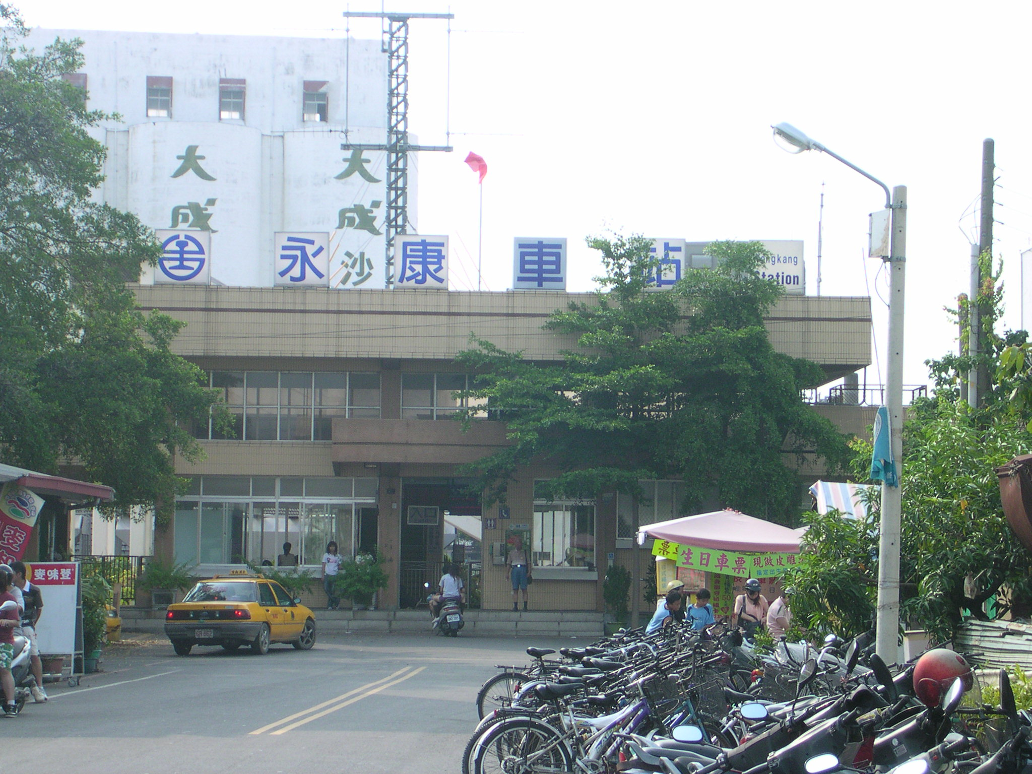 Yongkang Station, Tainan, Taiwan.中文（台灣）: 臺鐵縱貫線永康車站。